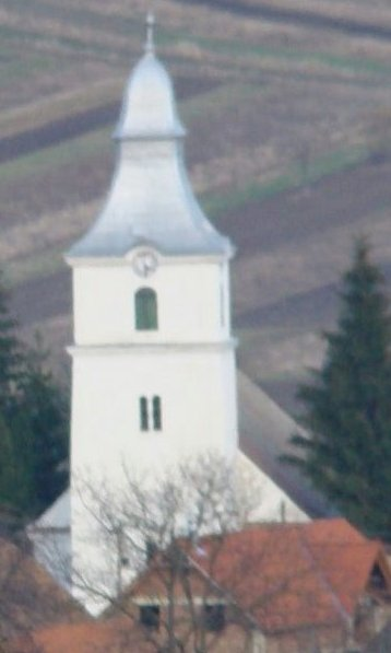 Unitarian church in Colțești, Alba county, Romania